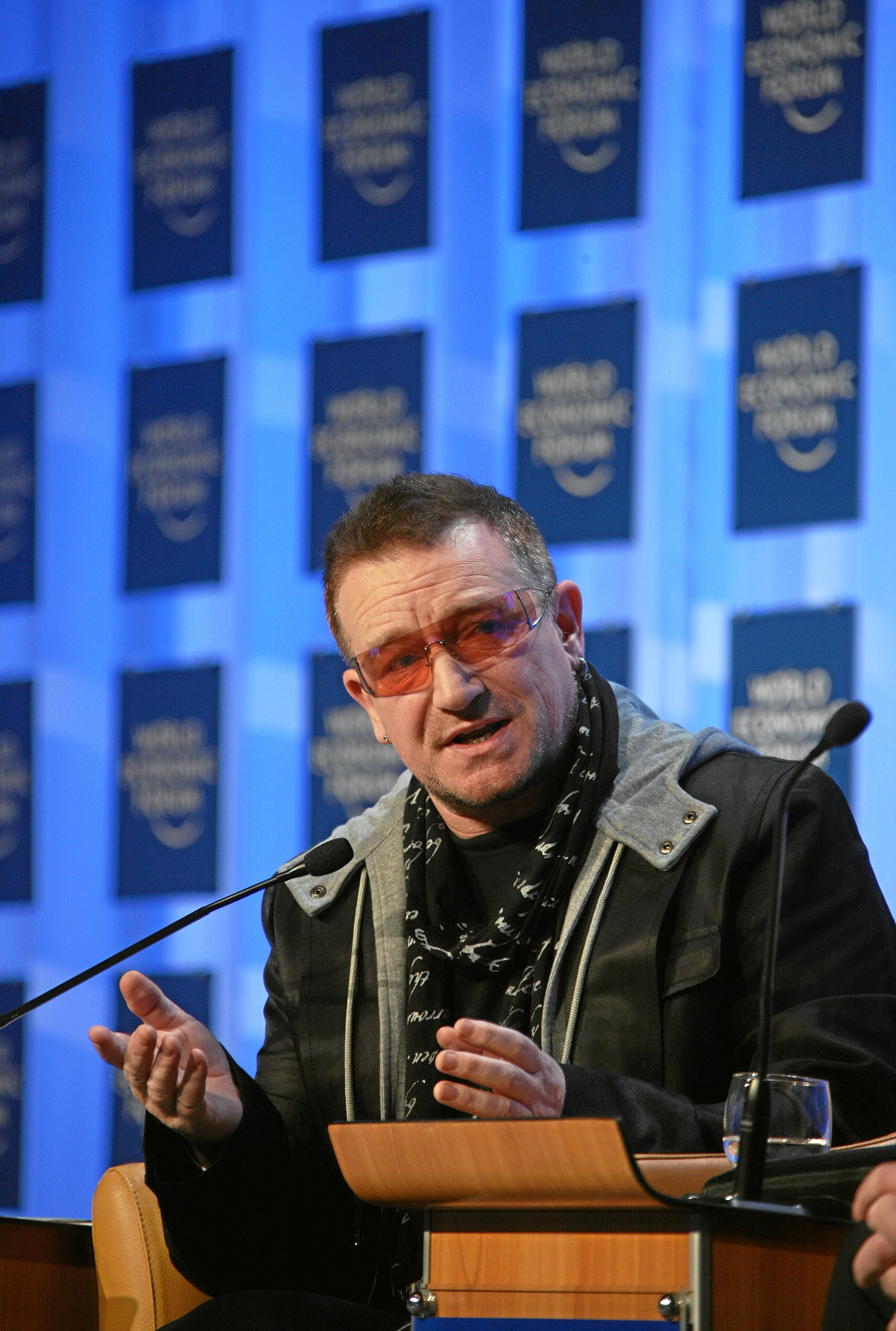 DAVOS/SWITZERLAND, 24JAN08 - Bono, Musician, DATA (DEBT, AIDS, TRADE, AFRICA), United Kingdom, makes a point during the session 'A Unified Earth Theory: Combining Solutions to Extreme Poverty and the Climate Crisis' at the Annual Meeting 2008 of the World Economic Forum in Davos, Switzerland, January 24, 2008. Copyright World Economic Forum ( by Remy Steinegger